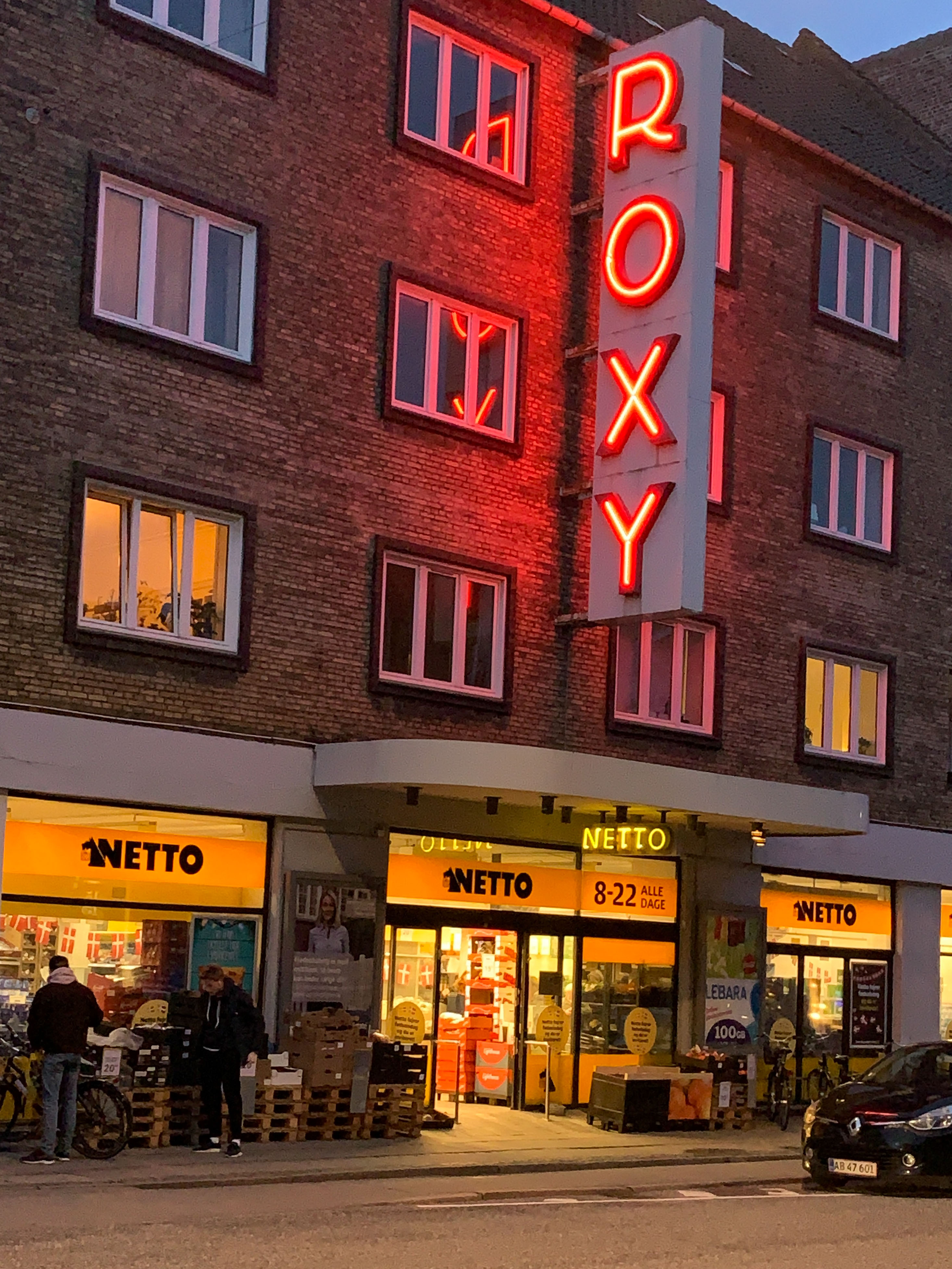 Roxy Bio